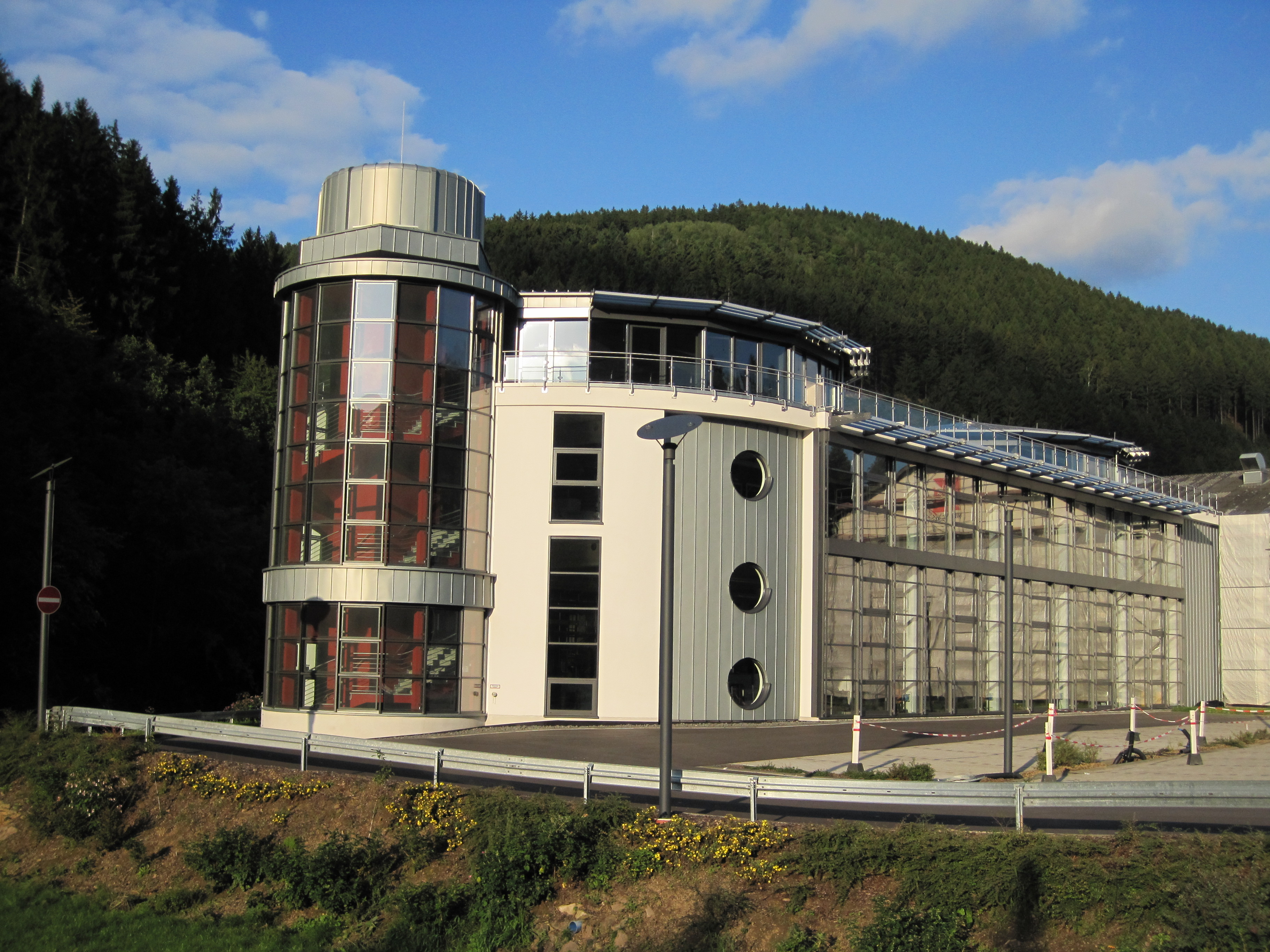 Mennekes, Kirchhundem, Germany check usage